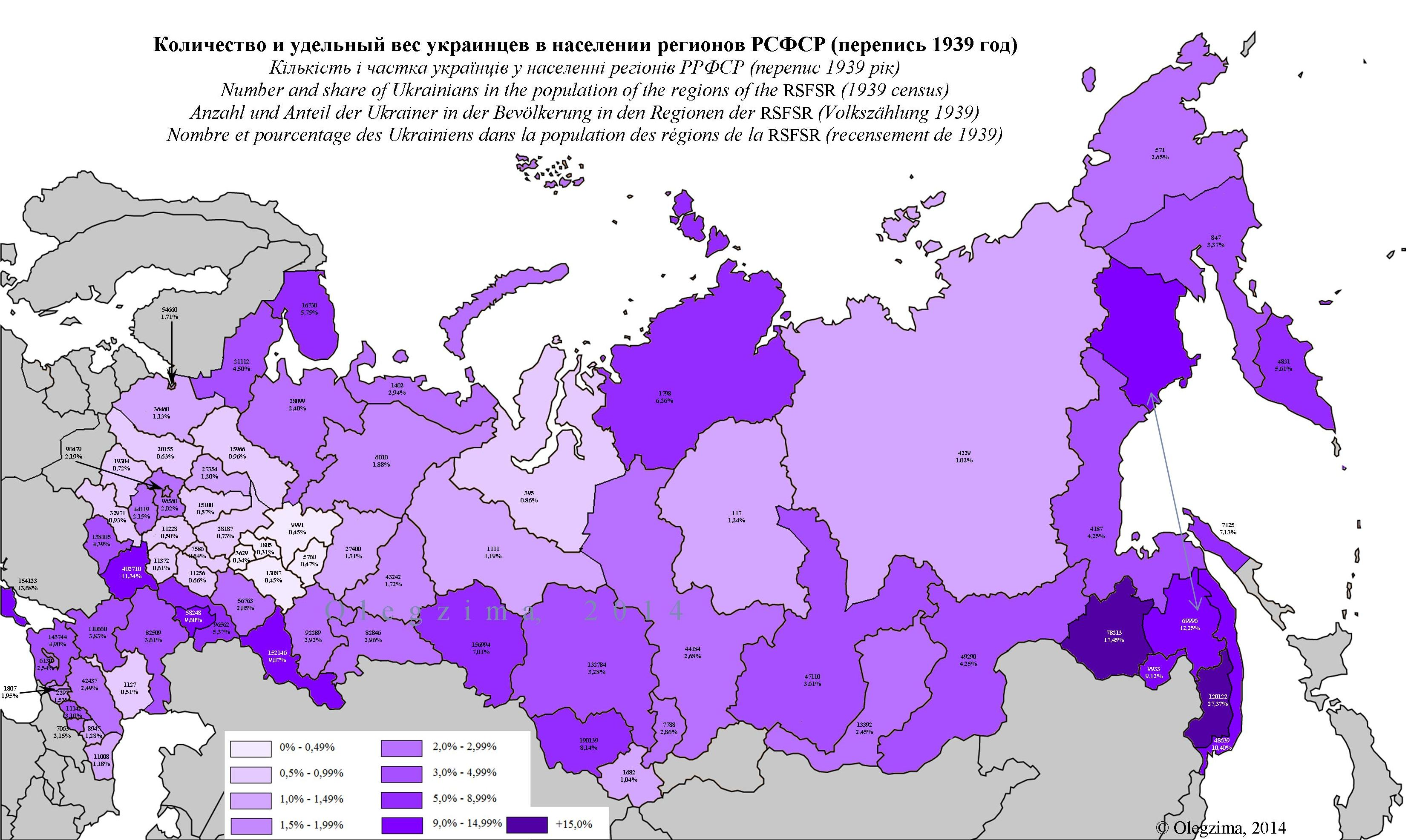 Number and share of Ukrainians in the population of the regions of the RSFSR (1939 census)